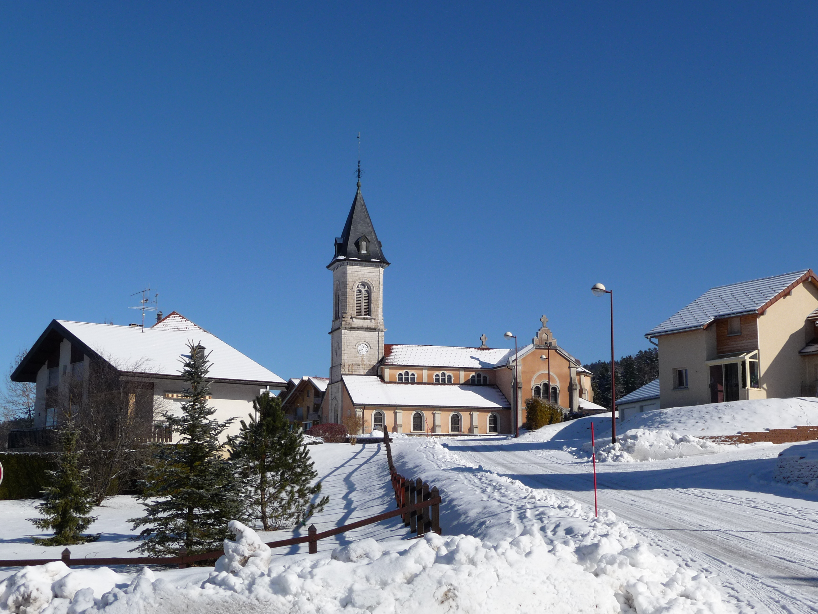 Eglise